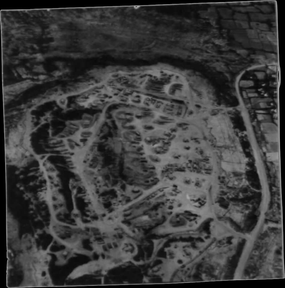 Aerial view of Cam Lo Base Camp